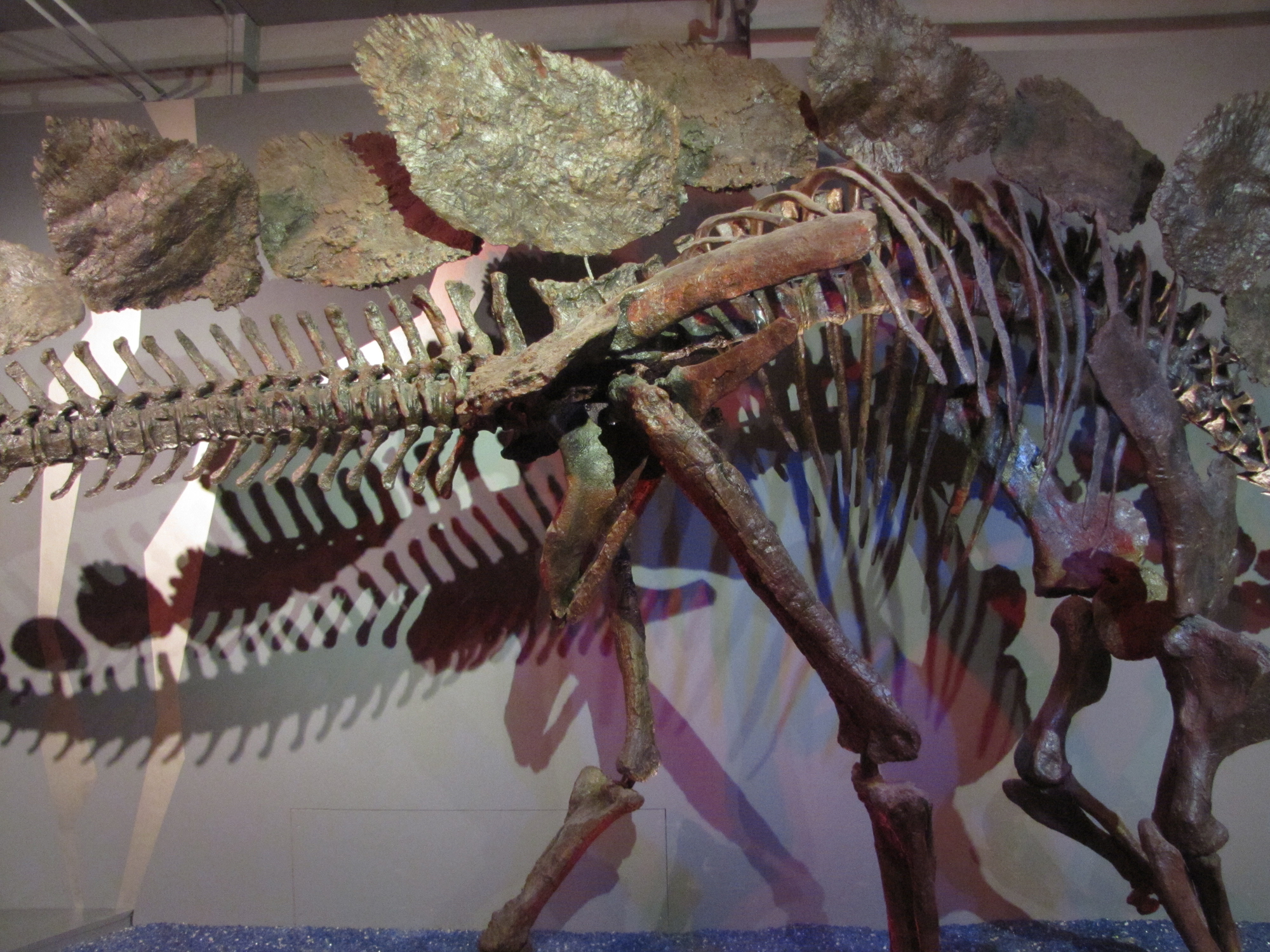 Plates of a Stegosaurus stenops specimen ("Sarah") from the Dinosaur Museum of Aathal (Switzerland). This specimen is now housed in the British Museum with the nickname "Sophie" and specimen number NHMUK PV R36730.